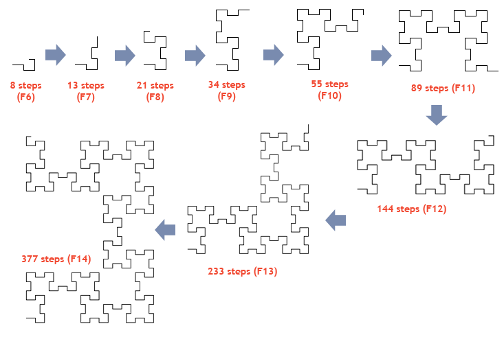 Stages of construction the Fibonacci fractal from F6 (6th Fibonacci number) to F14.